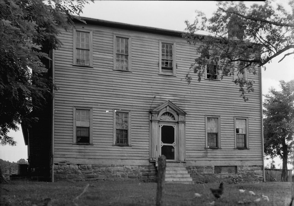 Front view of Sabine Hill, the house of General Nathaniel Taylor and his family, in Elizabethton, Tennessee. 1936 photo.